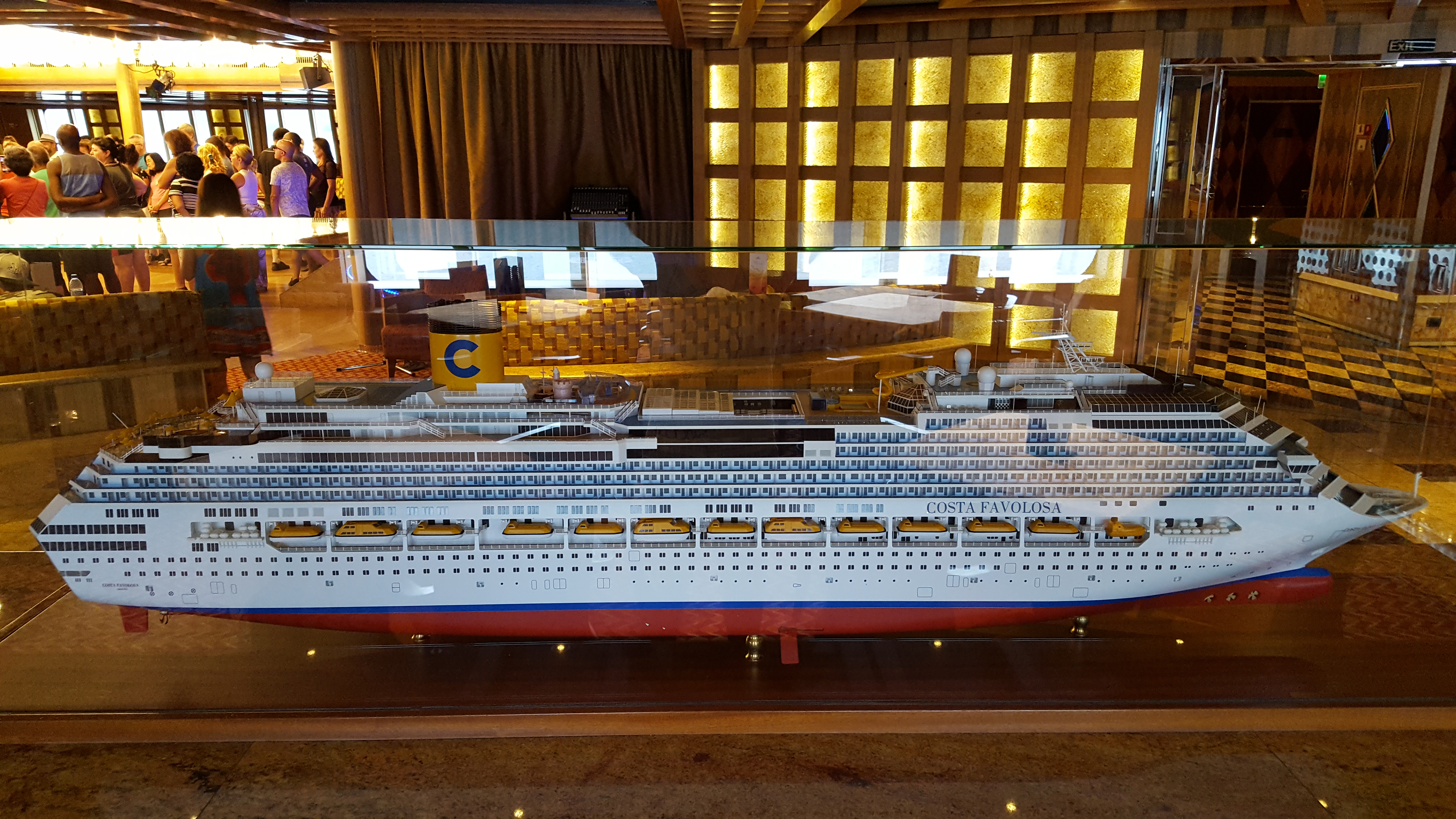 Ship replica found inside Costa Favolosa, March 2019.